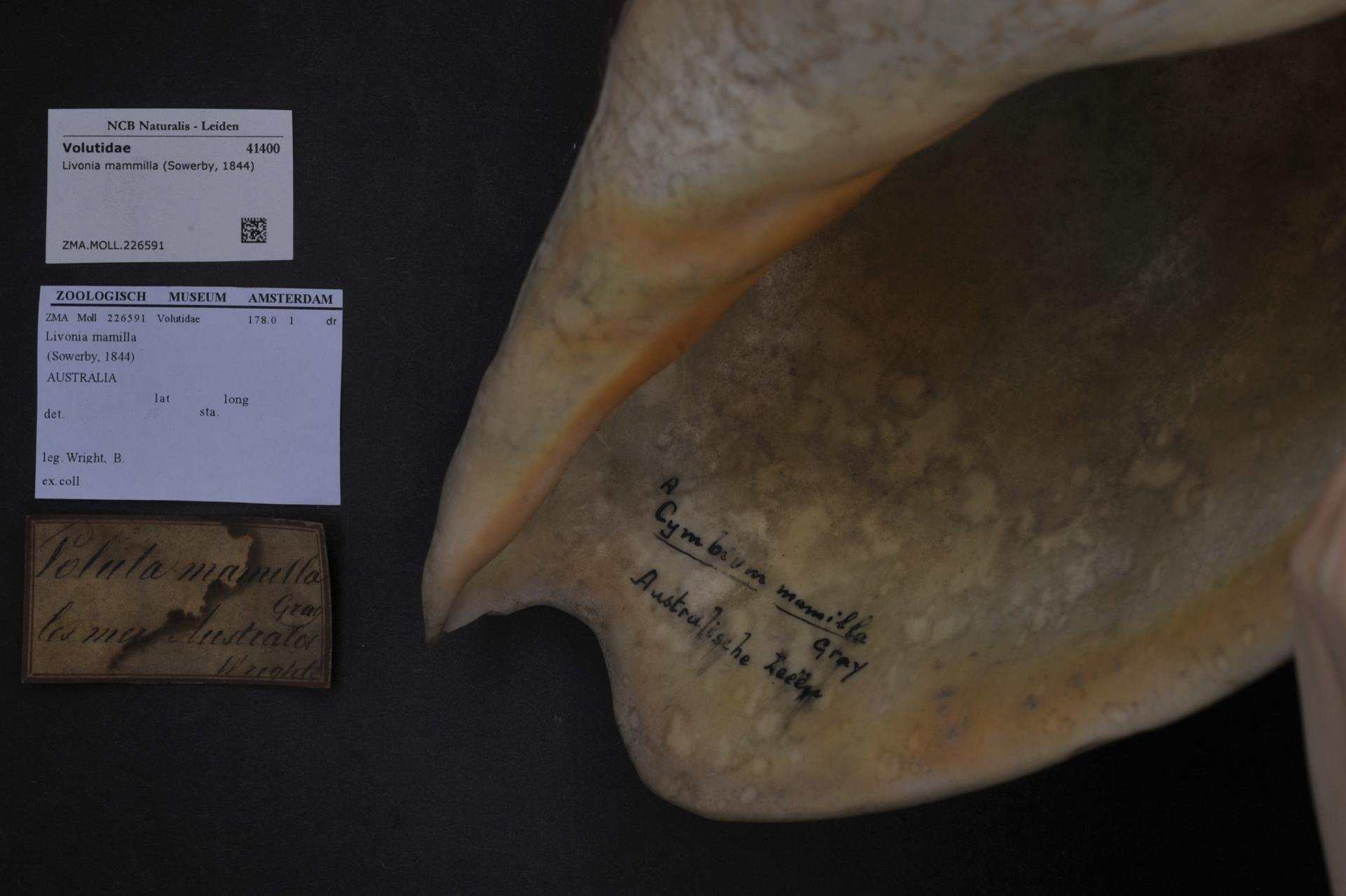 Livonia mammilla (Sowerby, 1844)